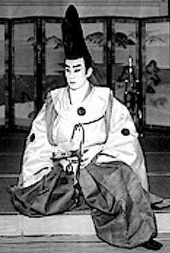 Jukai Ichikawa III (1886–1971)